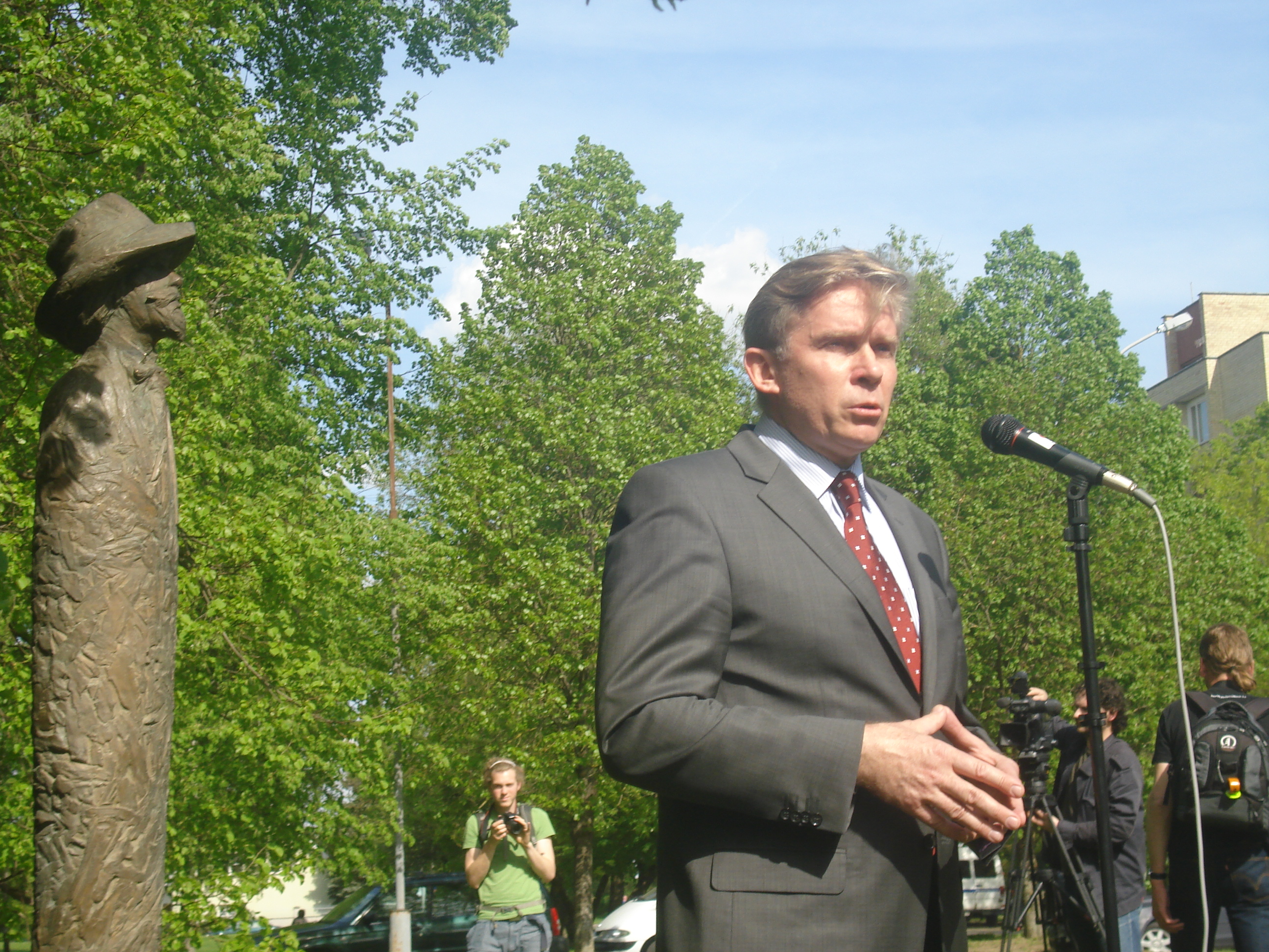 Audronius Ažubalis, Minister of Foreign Affairs of Lithuania